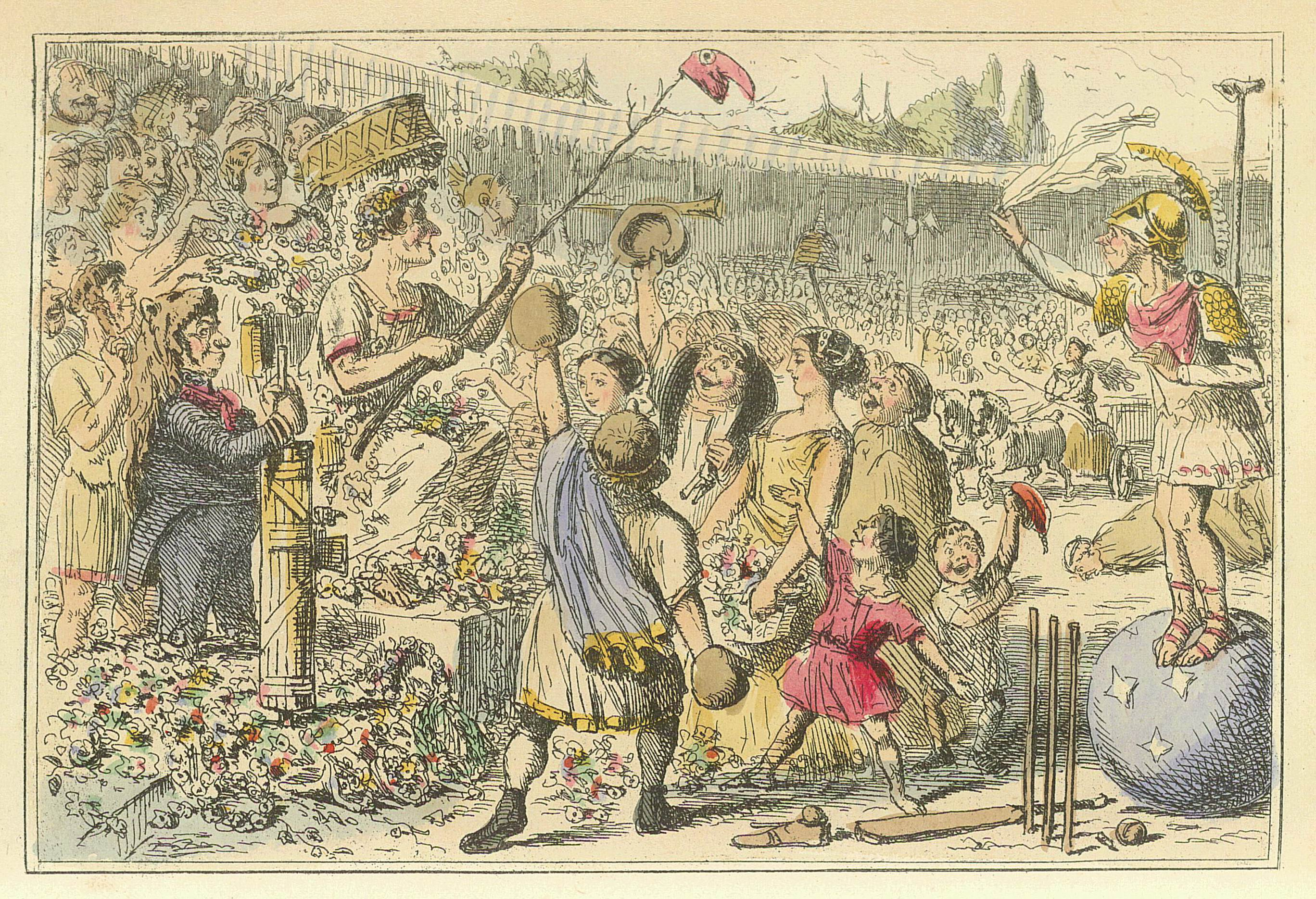 Image by John Leech, from: The Comic History of Rome by Gilbert Abbott A Beckett. Bradbury, Evans & Co, London, 1850s Flaminius restoring Liberty to Greece at the Isthmian Games